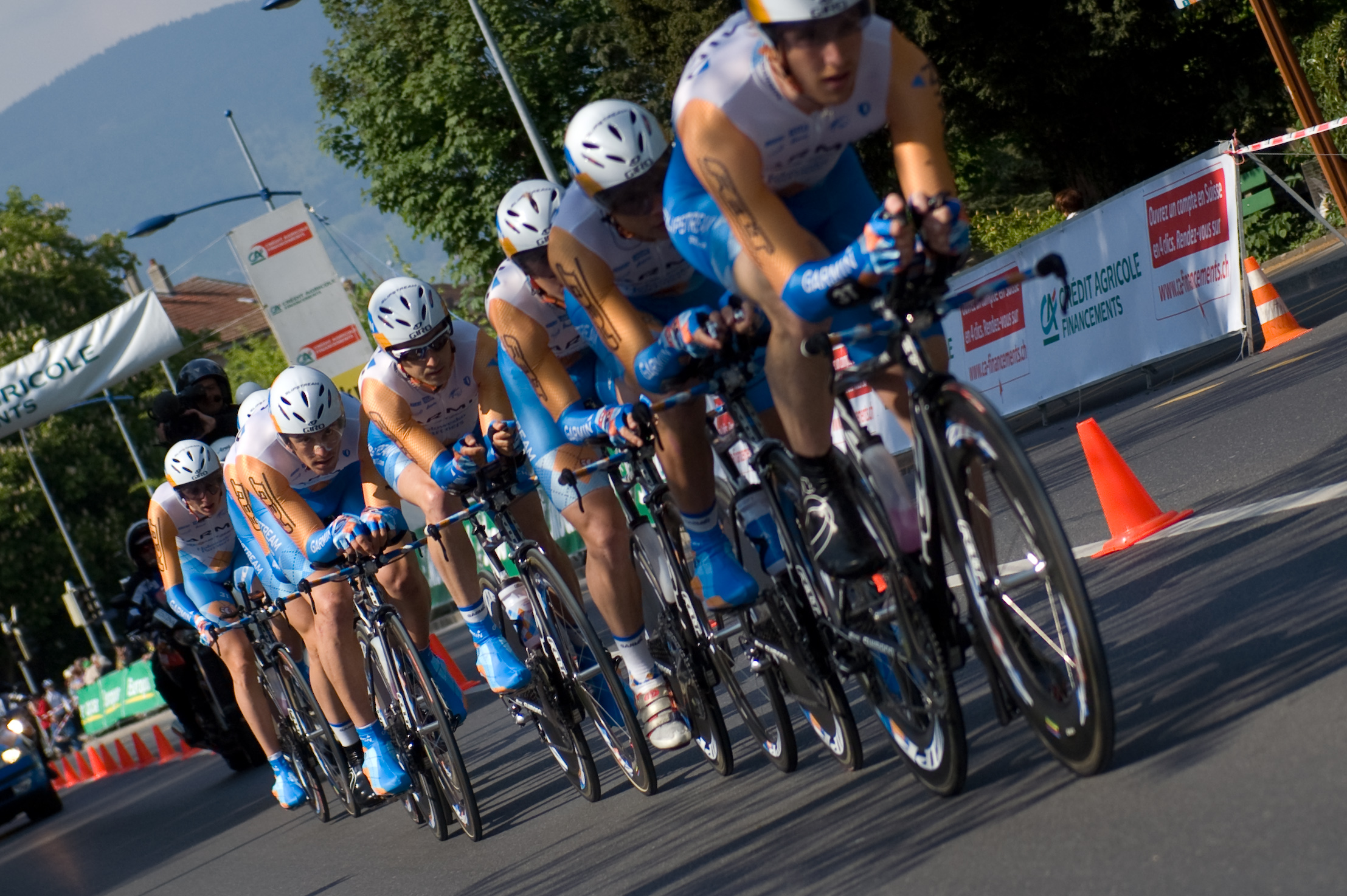 Tour de Romandie 2009 - 3rd stage - team time trial